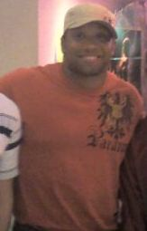 Took this picture when I met Jamal in August 2007